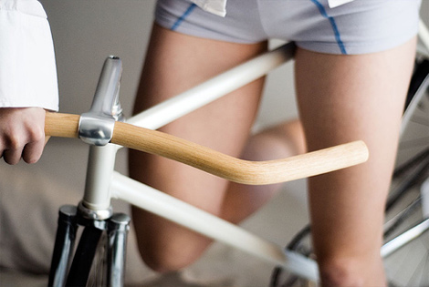 Wood handlebars